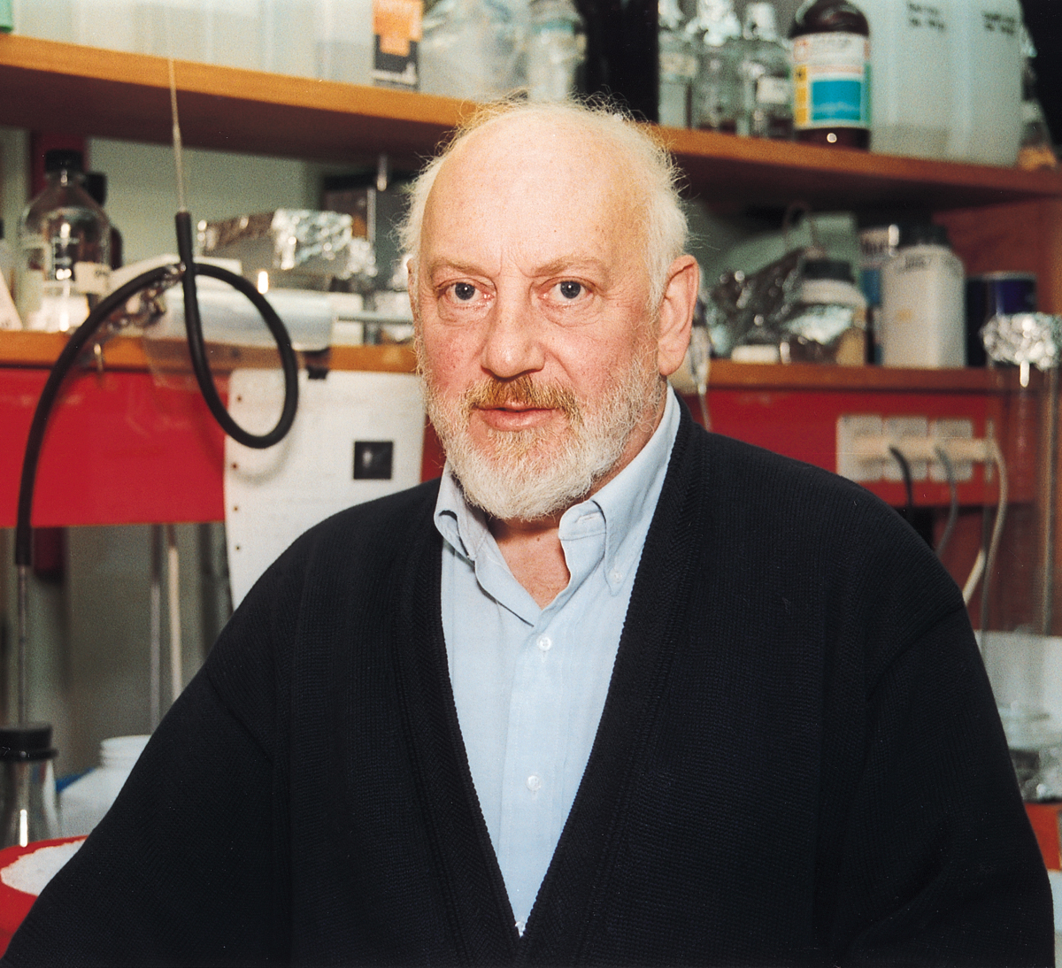 Professor Michel Revel